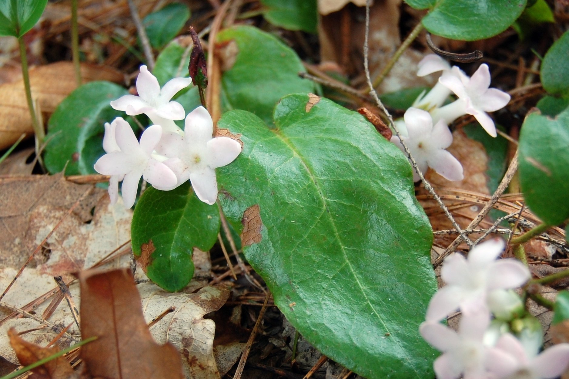 This is one of the earliest and most aromatic of the spring wildflowers. The Puritans named the Trailing Arbutus the "Mayflower" in remembrance of the ship that carried them to the bleak coast of New England after a long and severe winter. Trailing arbutus is difficult to start and once gone, it is likely gone forever because it rarely produces fruits, it's seeds are dispersed by ants, and it requires a certain type of fungus to grow with its root system or it will not establish. Trailing Arbutus is virtually impossible to transplant.